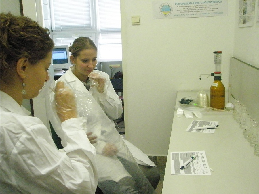 Scaling of perceived odour intensity (n-butanol scale)